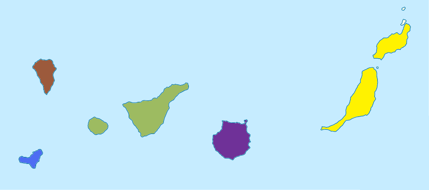 Copy of Spain_Canary_Islands_location_map_with_Spain.png, amended to show ranges of the races of African Blue Tit Key Green: teneriffae Brown: palmensis Blue: ombriosus Yellow: ultramarinus